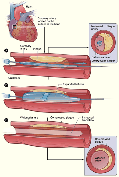 Diagram of coronary angioplasty